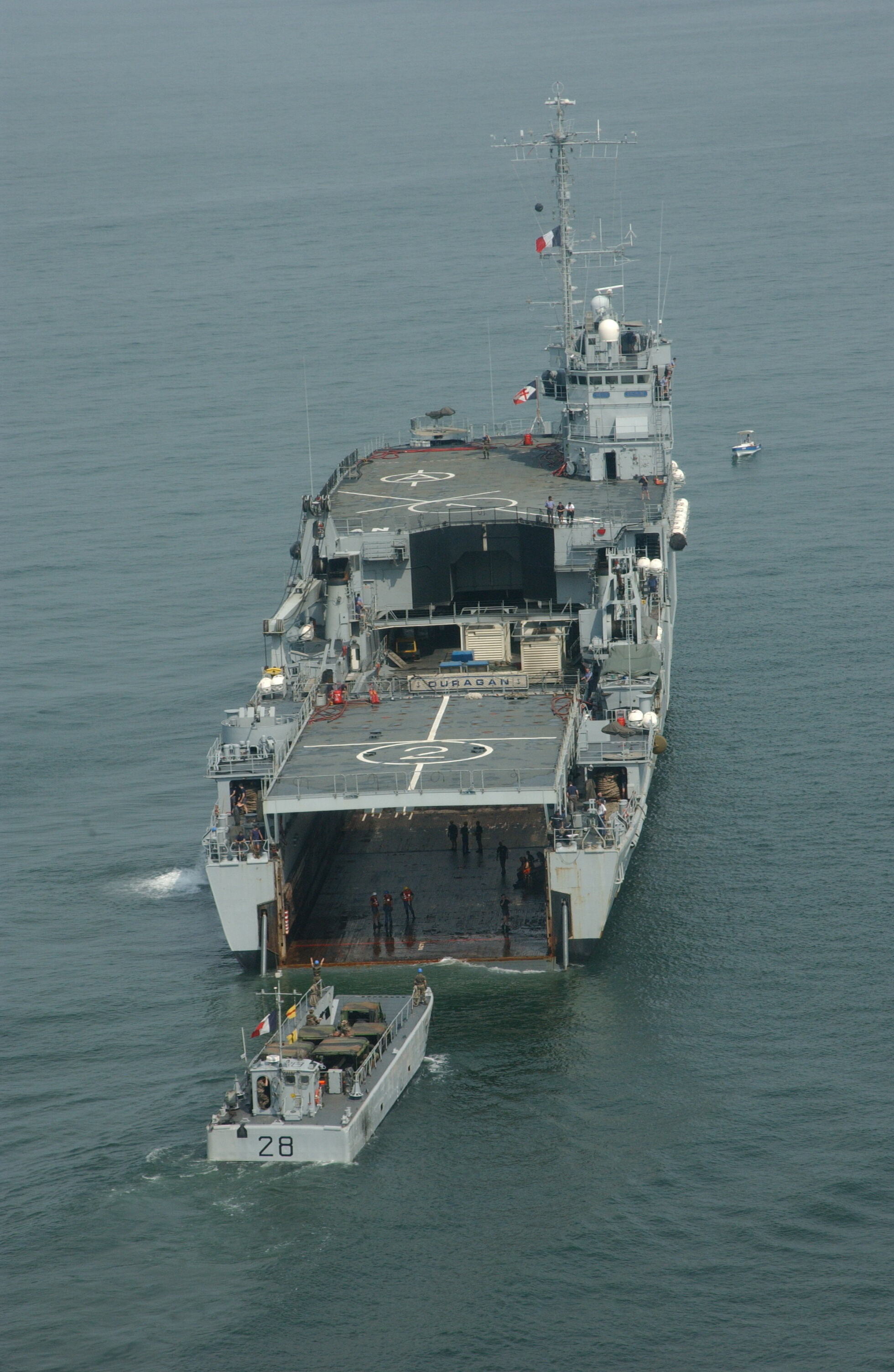 The French Navy ship TCD Ouragan L9021 near the Gabonese coast.